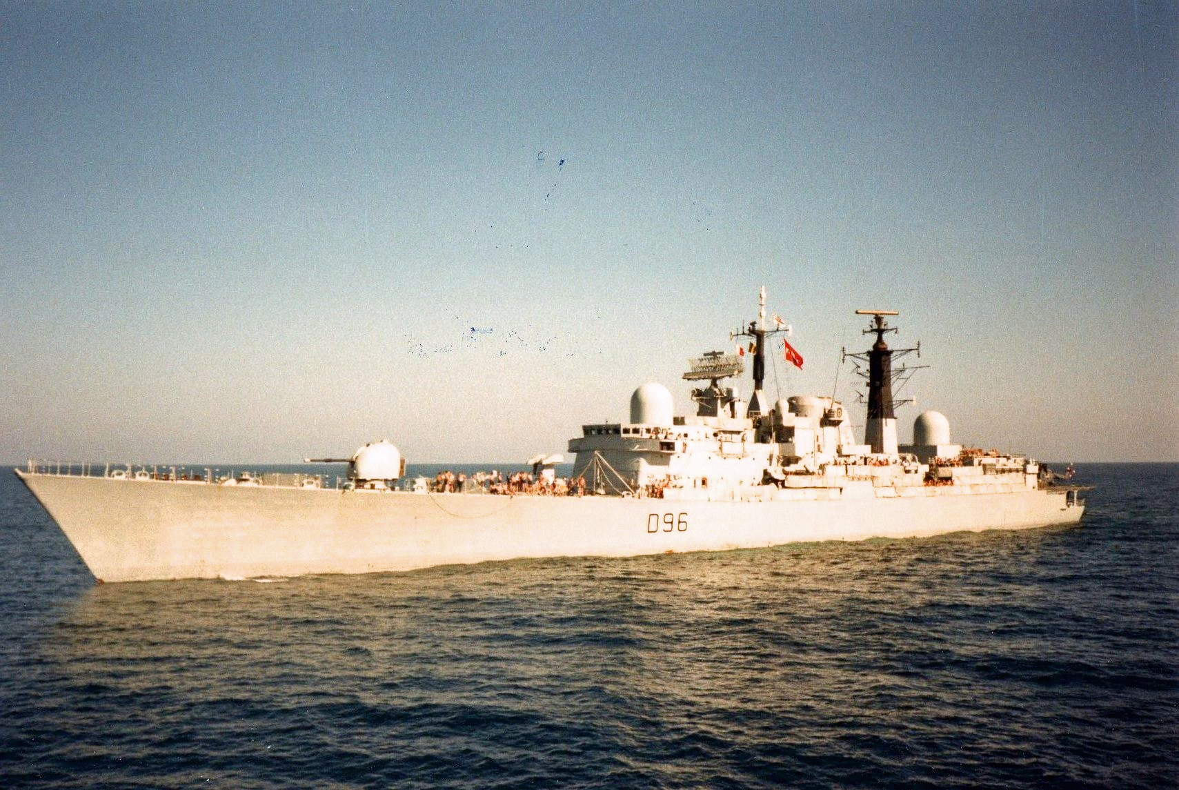 HMS Gloucester relieving HMS Nottgingham on Armilla Patrol circa 1987